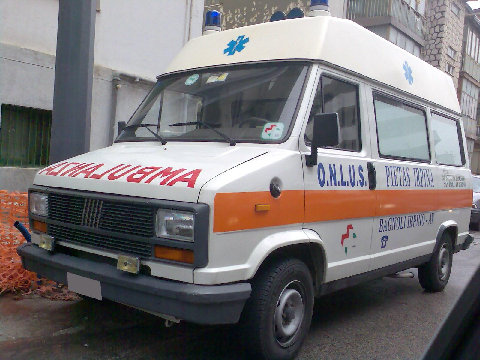 Classic Fiat Ducato Ambulance, with "AMBULANZA" in mirror writing ("AZNALUBMA")